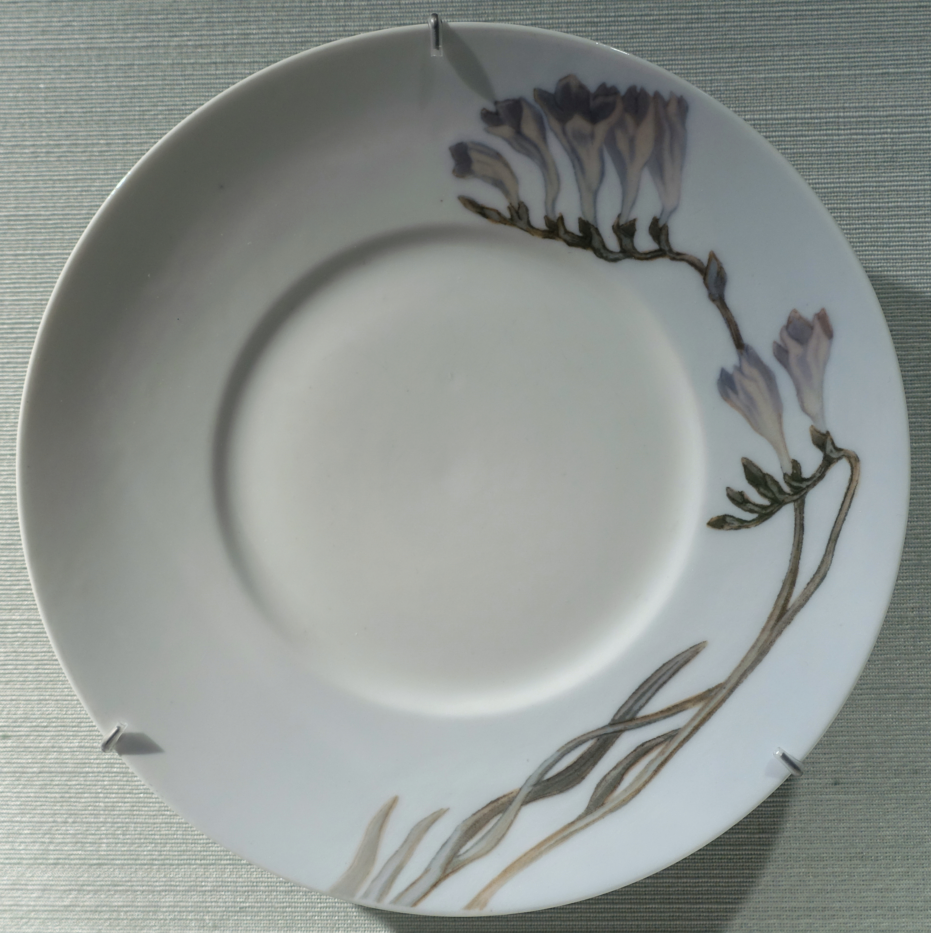 Exhibit in the Hessisches Landesmuseum Darmstadt - Darmstadt, Germany. As a utilitarian object, this exhibit is NOT subject to copyright laws. Instead it is subject to Industrial Design Rights; see Industrial Design Right for more information. If this object was ever covered by a design patent, that patent has long since expired, and thus this image is in the public domain.